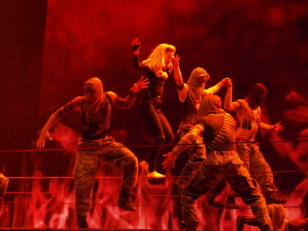 Madonna concert in Barcelona